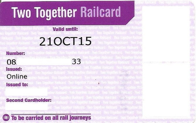 A Two Together national Railcard for use in the UK. The photographs, names and serial numbers have been removed. There would normally be two photographs of the card holders on the right hand side.